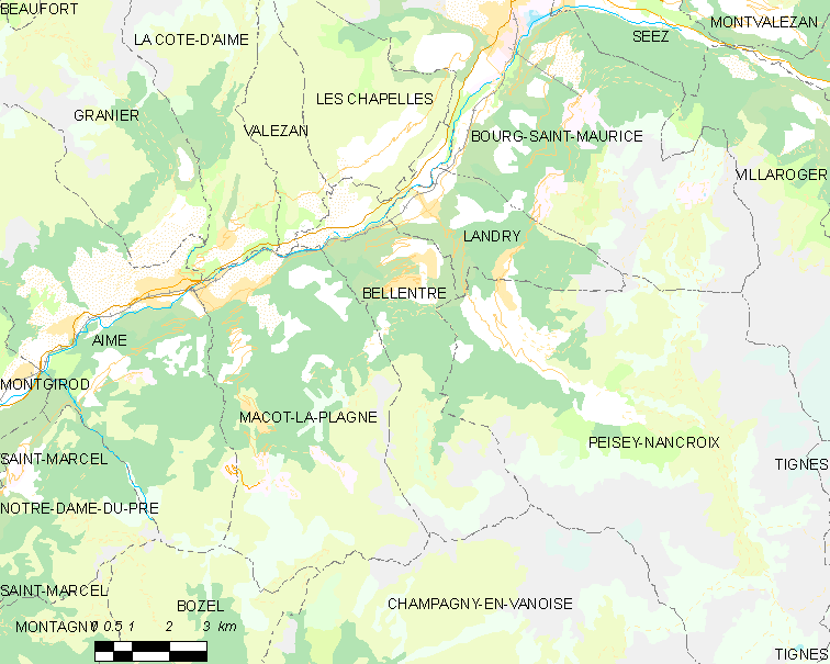 Map of French municipality